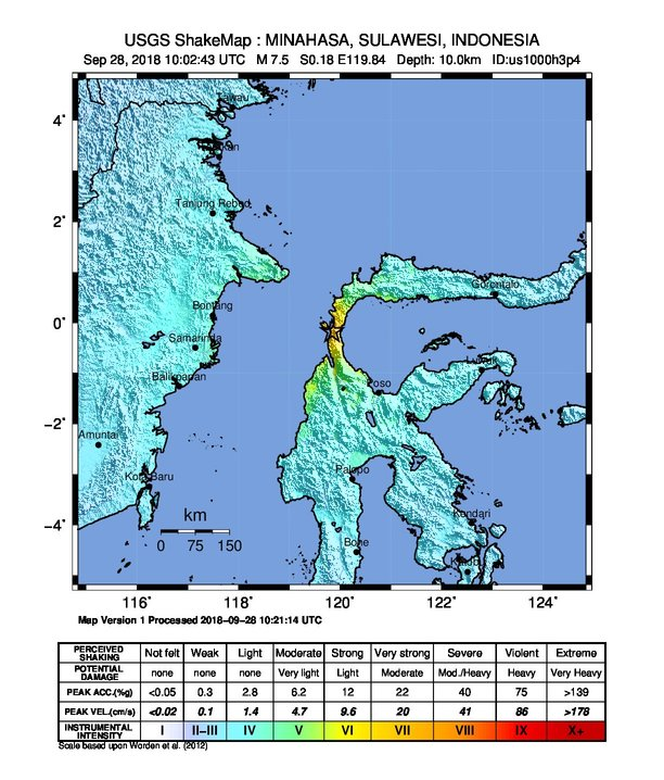 M 7.5 - 78km N of Palu, Indonesia - intensity